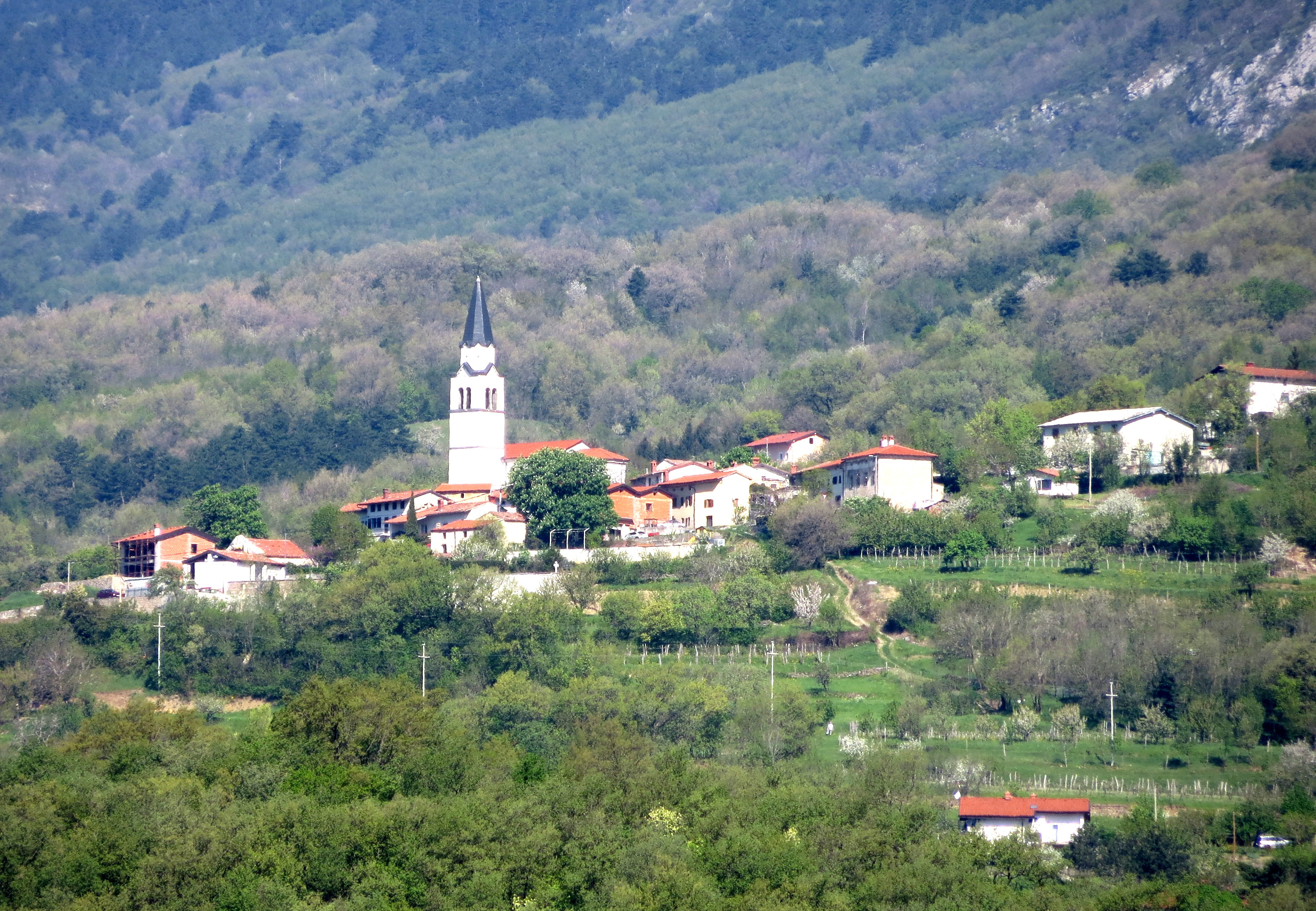 Stomaž, Municipality of Ajdovščina, Slovenia